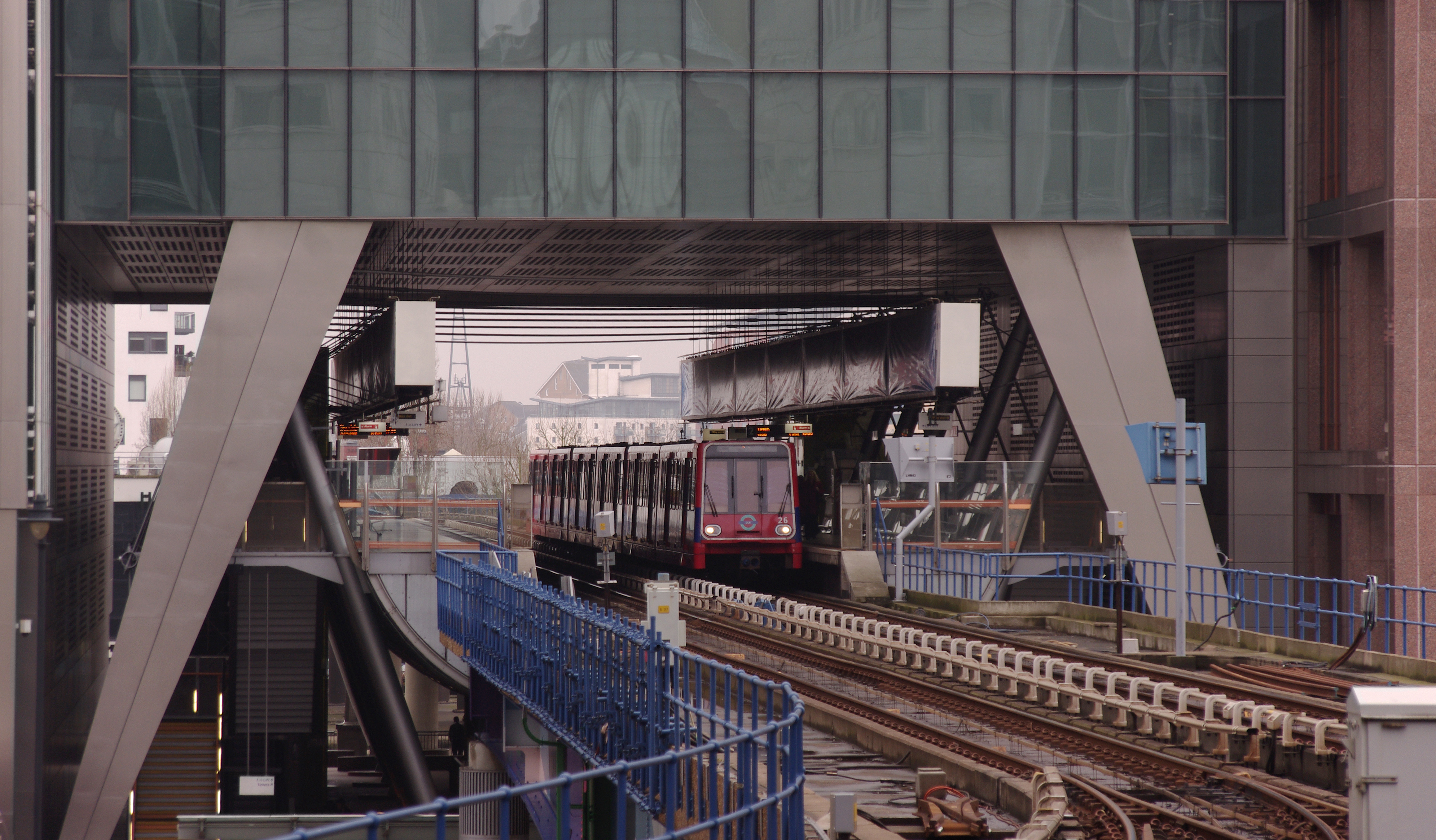 Heron Quays DLR station, seen from Canary Wharf DLR station. DLR type B90 #26 is in the station.